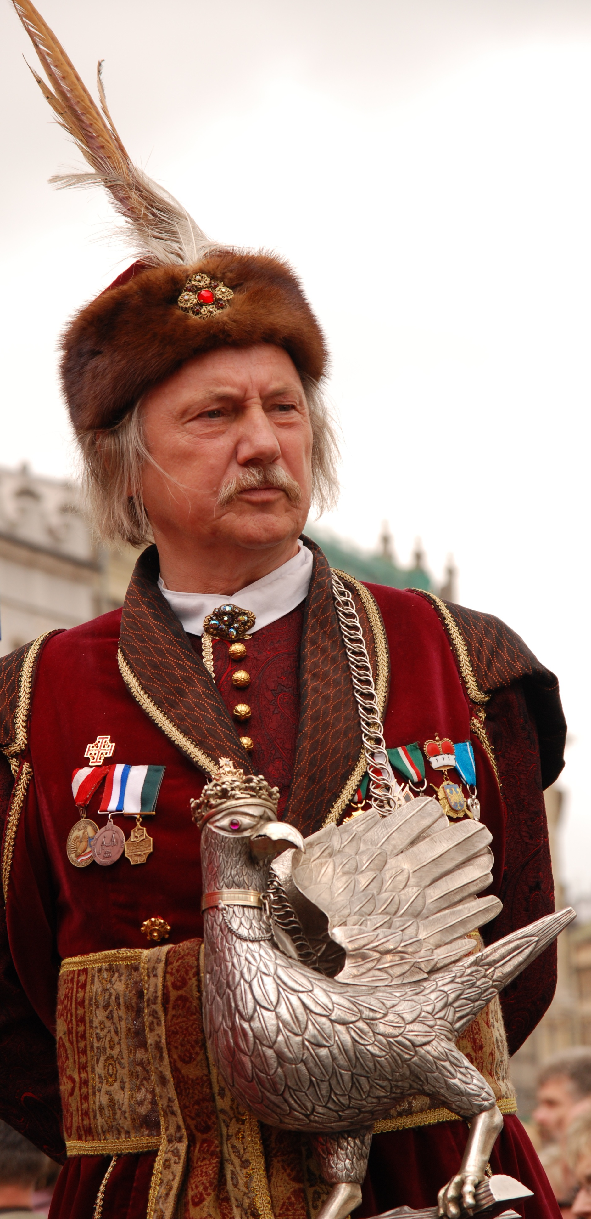 Prof. Czesław Dźwigaj as a king of Kur's Fraternity (Shooting Society). Corpus Christi feat, Kraków, 2008 Ирон: Чырыстийы буары бæрæгбоны дæргъы Краковы цæрæг аивæдты профессор Чеслав Джвигай хъазы цуанонты къаролы роль